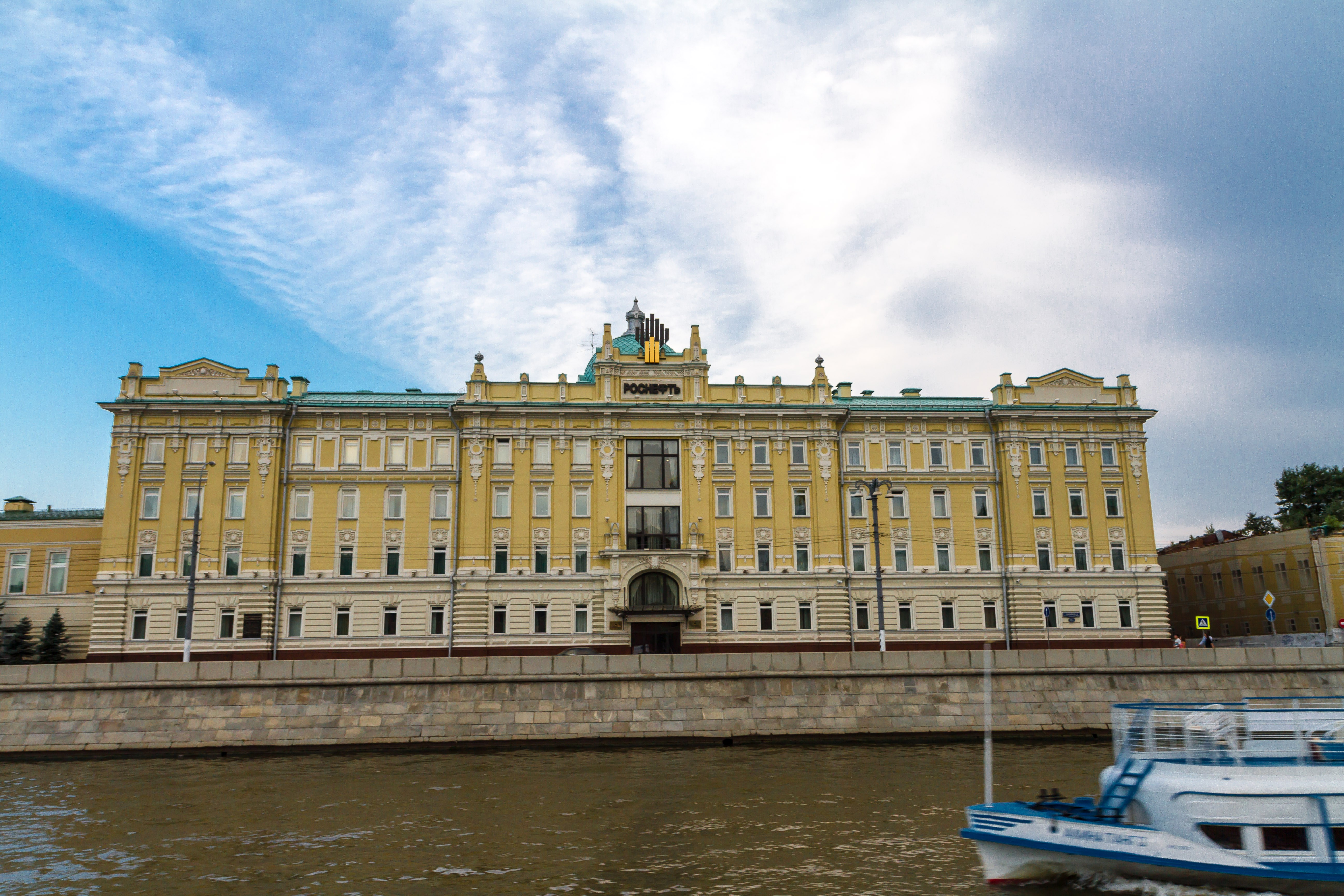 Yakimanka District, Moscow, Russia